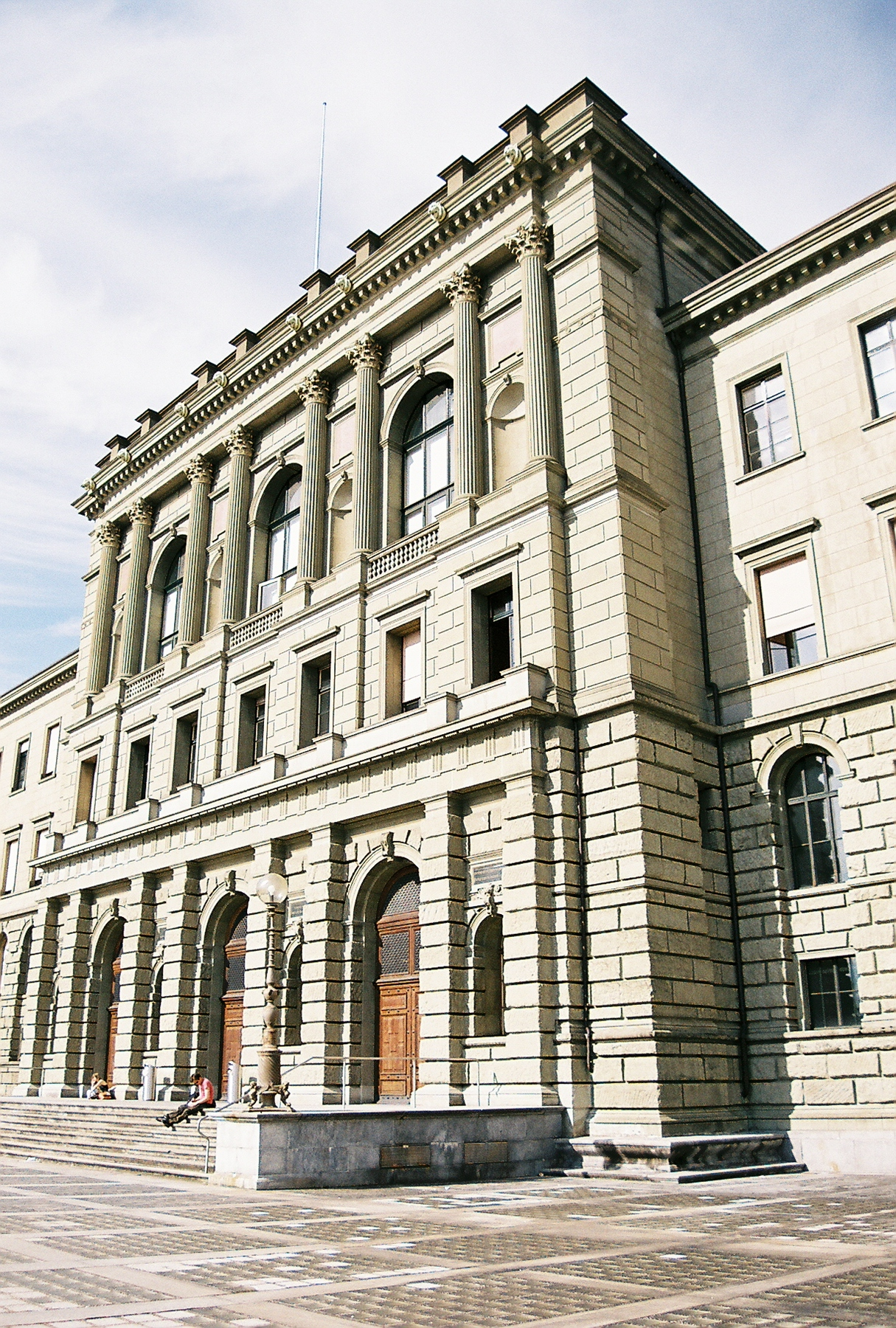 The ETH facing the Limmat River